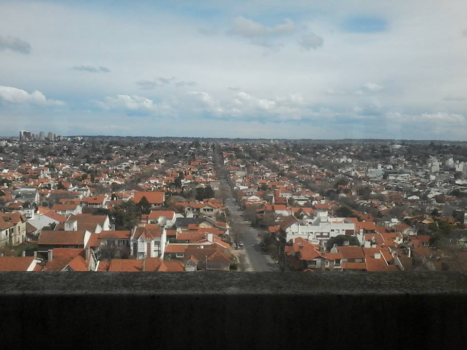 Vista de la Torre Tanque